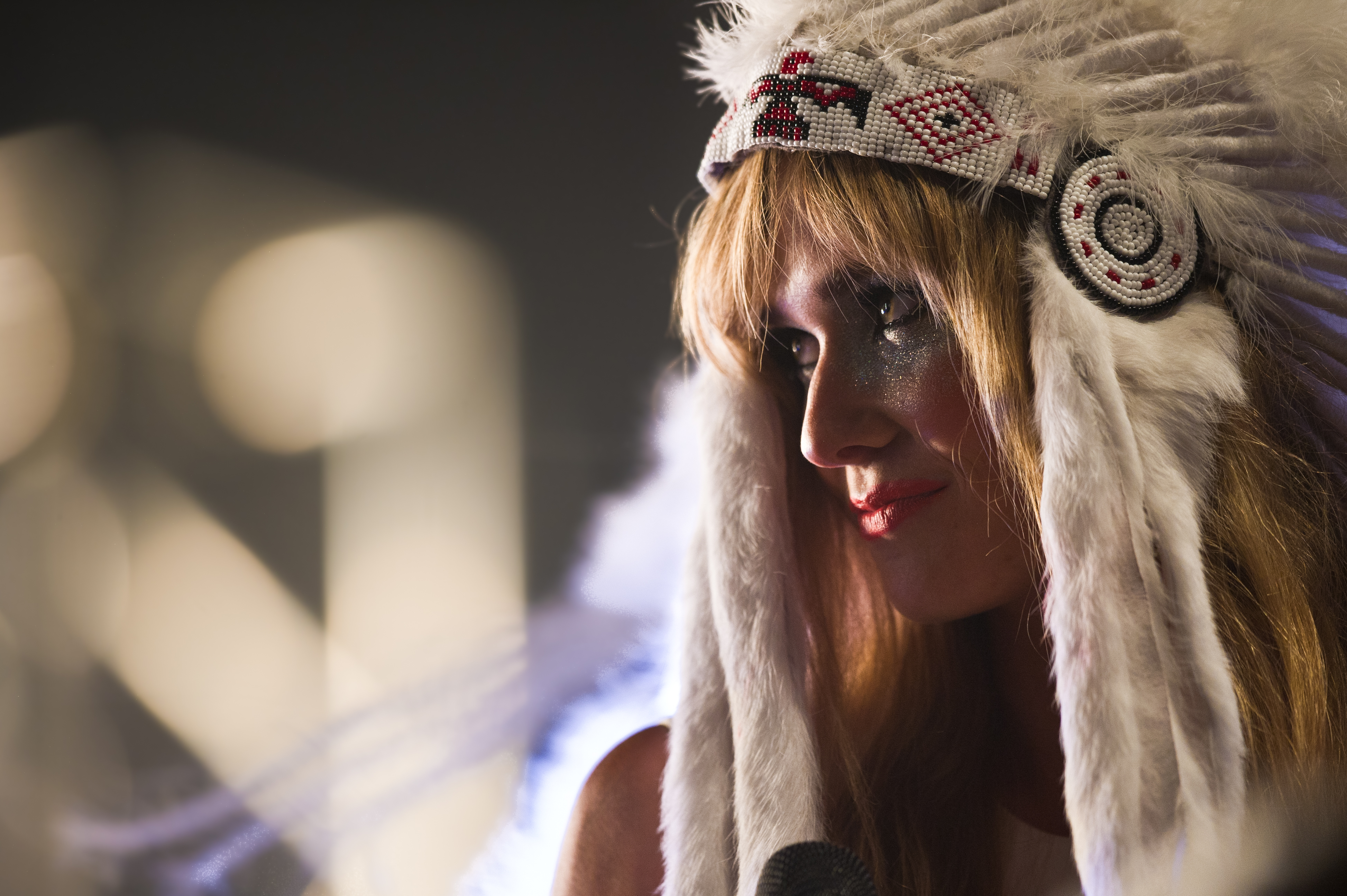 Oh Land playing on Cosmopol stage at Roskilde Festival 2011. She was wearing fluorescent lipstick - so her lips looks a bit weird.